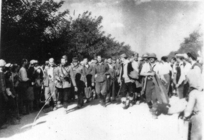 Captured Germans in the offensives of ELAS in Evro This media file is produced by Wikipedian in Residence in Category:Wikipedian in Residence at DARM in 2016.